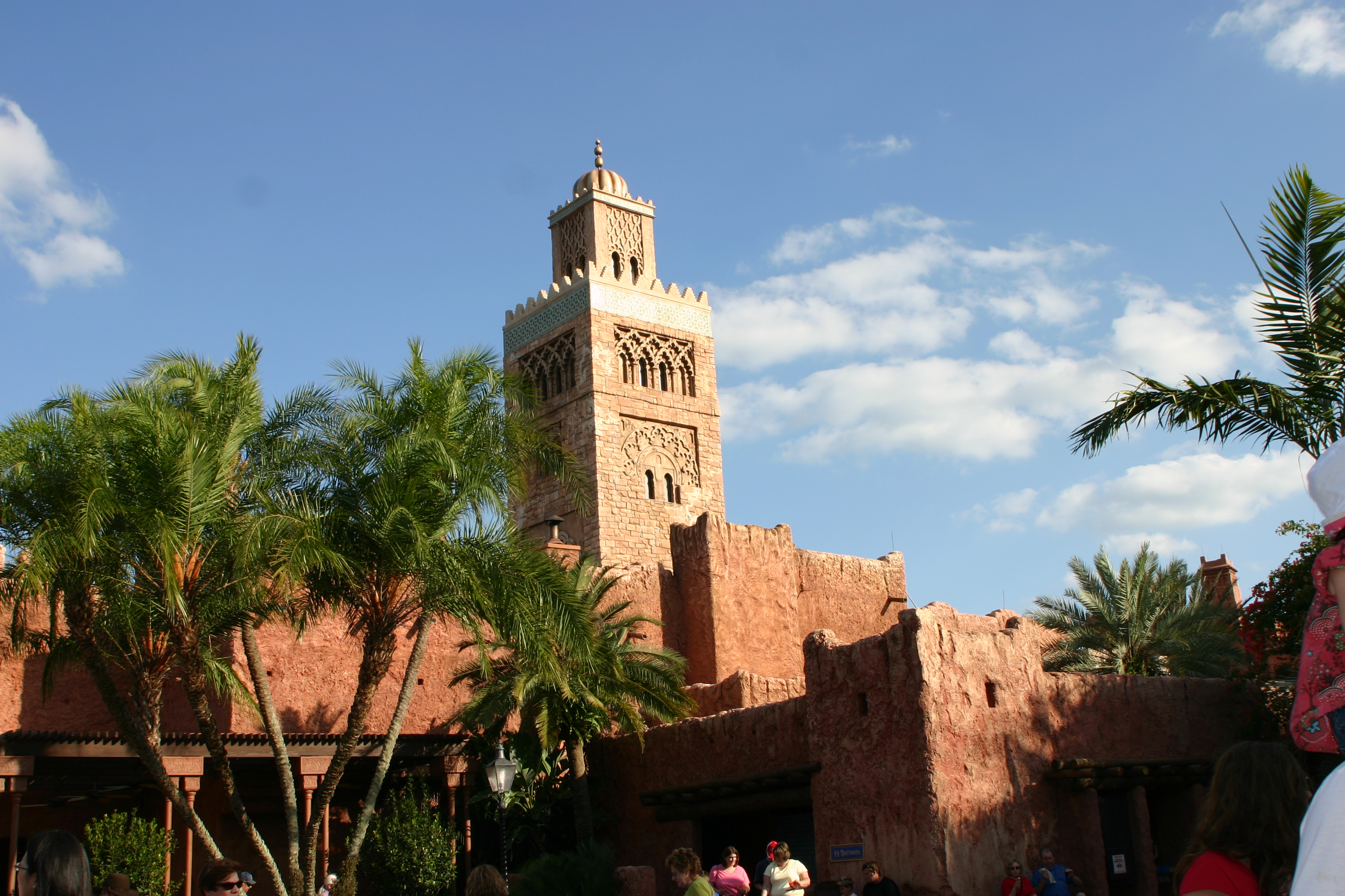 Epcot-Morocco Photo by Elizabeth (table4five) Website